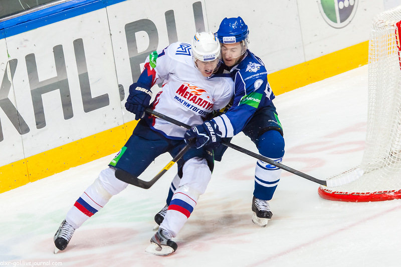 HC Metallurg Magnitogorsk forward Evgeni Malkin and Amur Khabarovsk defenceman Vladimir Loginov during KHL-game on October 8, 2012.